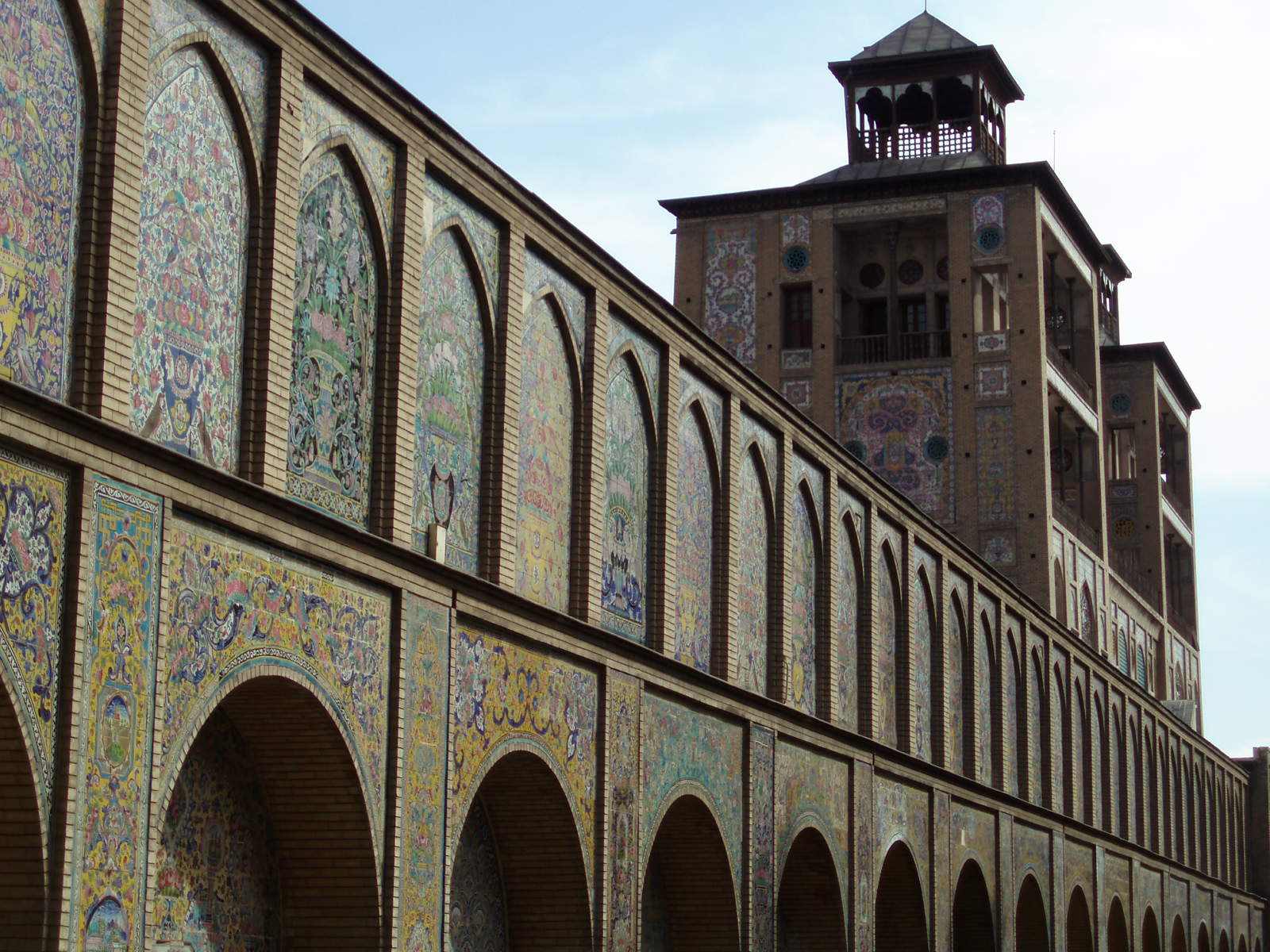 Golestan palace Tehran